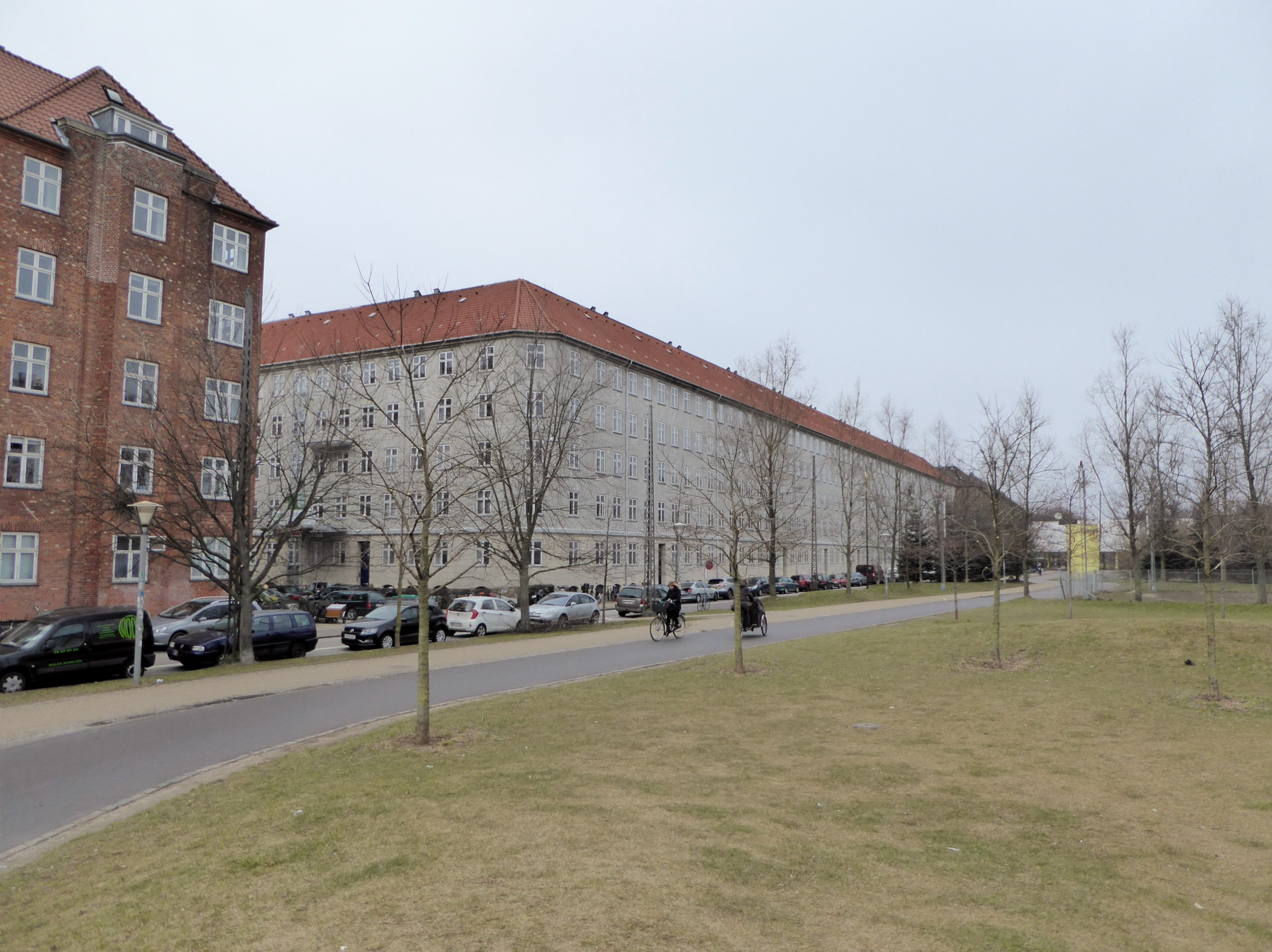 The street Hellebækgade and the bikeway Nørrebroruten in Nørrebro in Copenhagen.